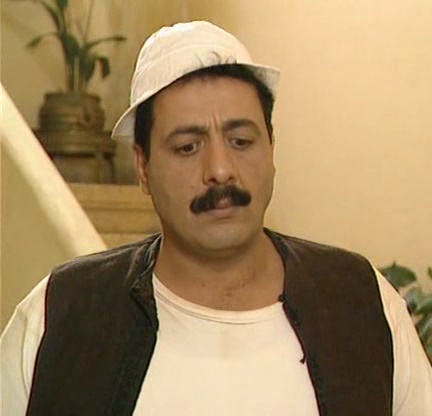 A portrait of Ayman Zaidan